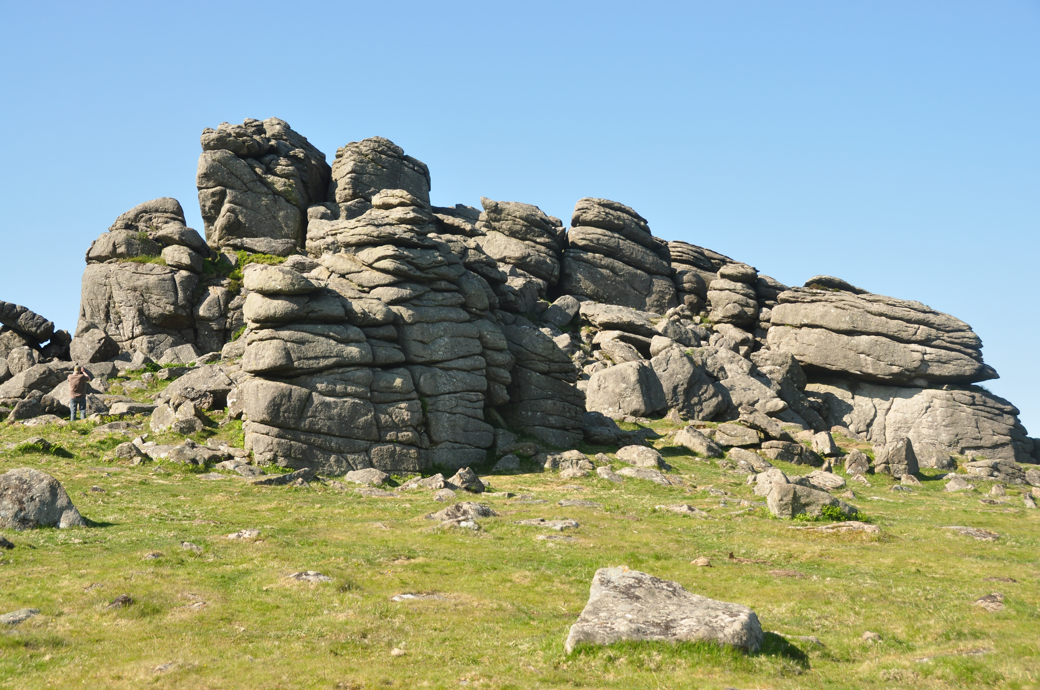 Hound Tor, Manaton